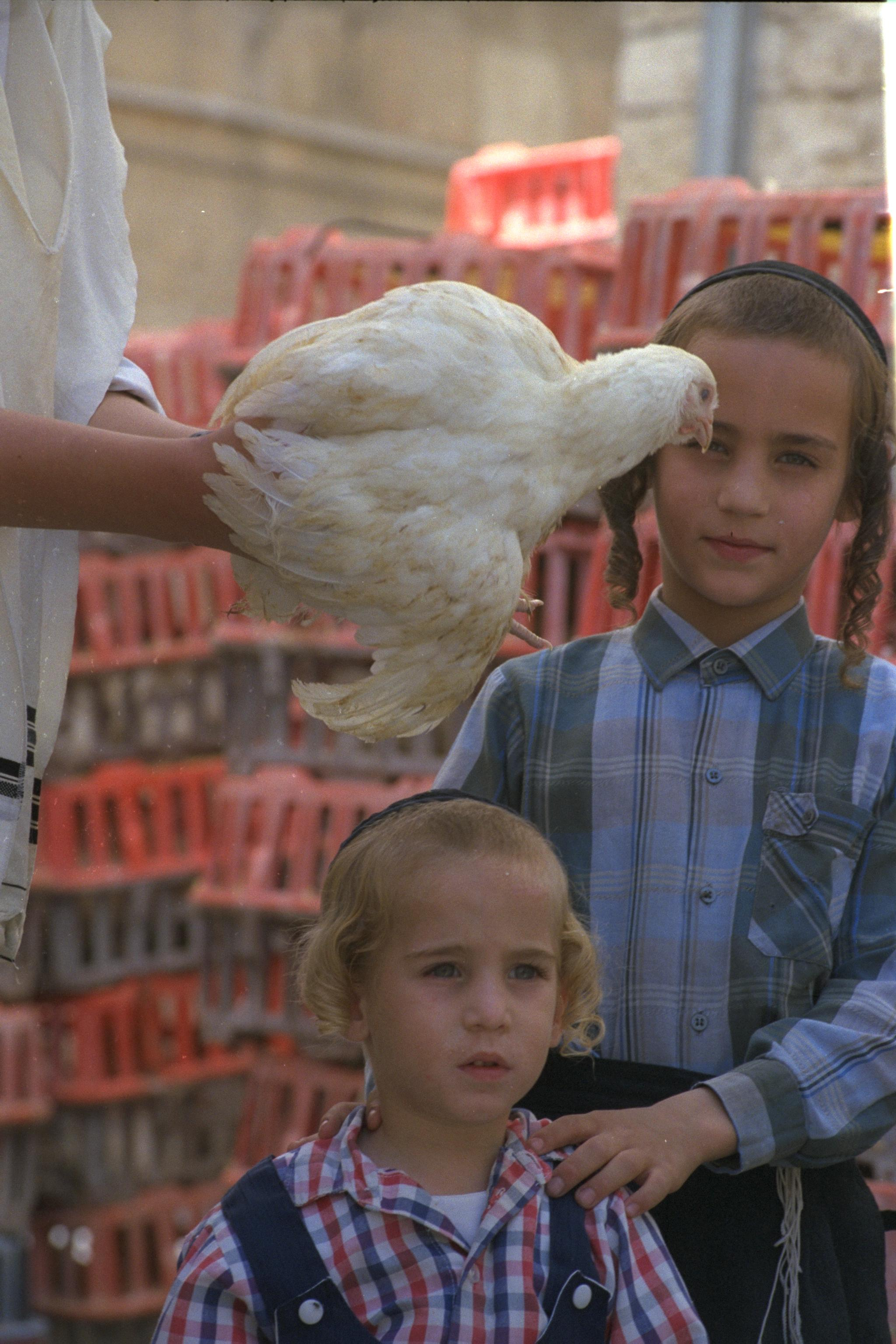 The “kaparot” ritual held on the eve of “Yom Kippur” in Jerusalem's Mea She'arim neighborhood. GPO photo by Ohayon Avi.